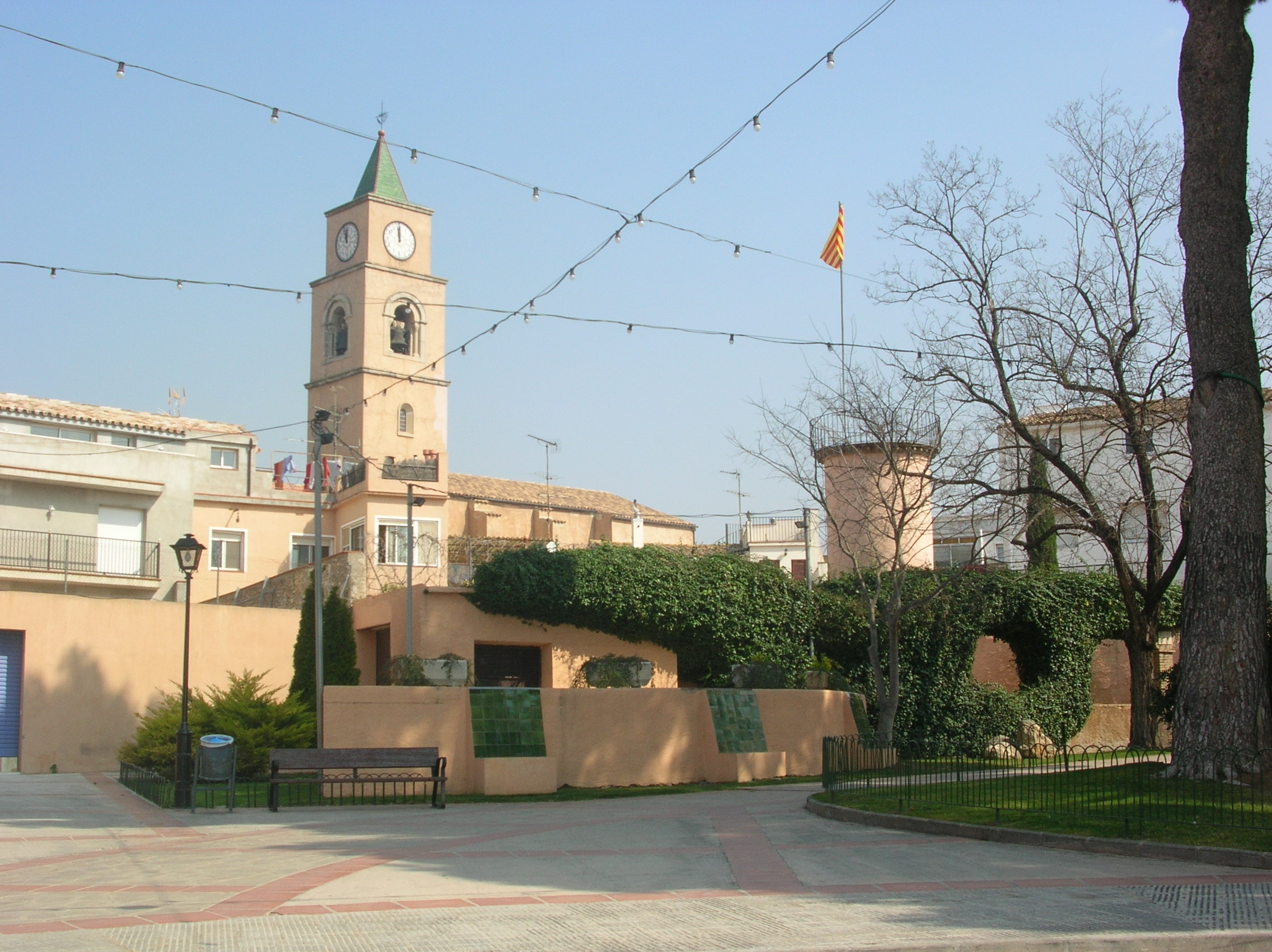 Church of "Llorenç del Penedès", Catalonia.